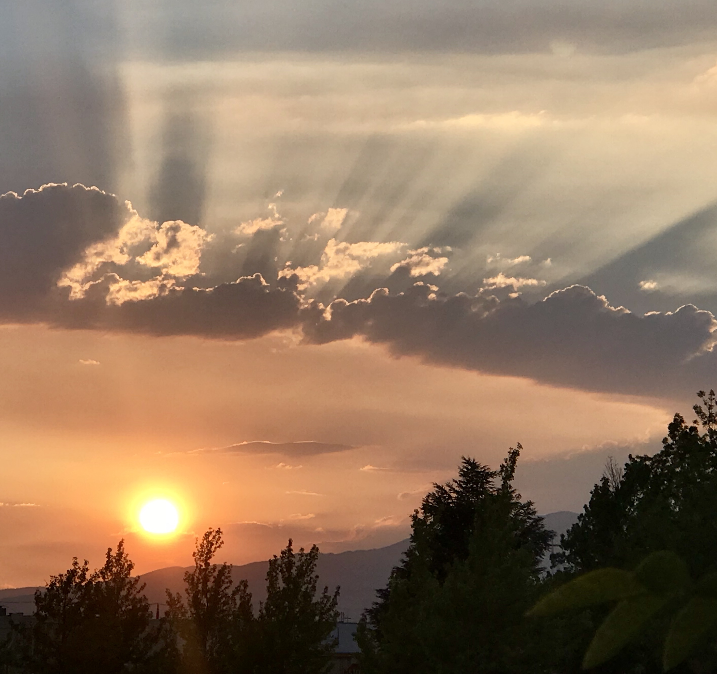 Sunbeams Reno Nevada USA